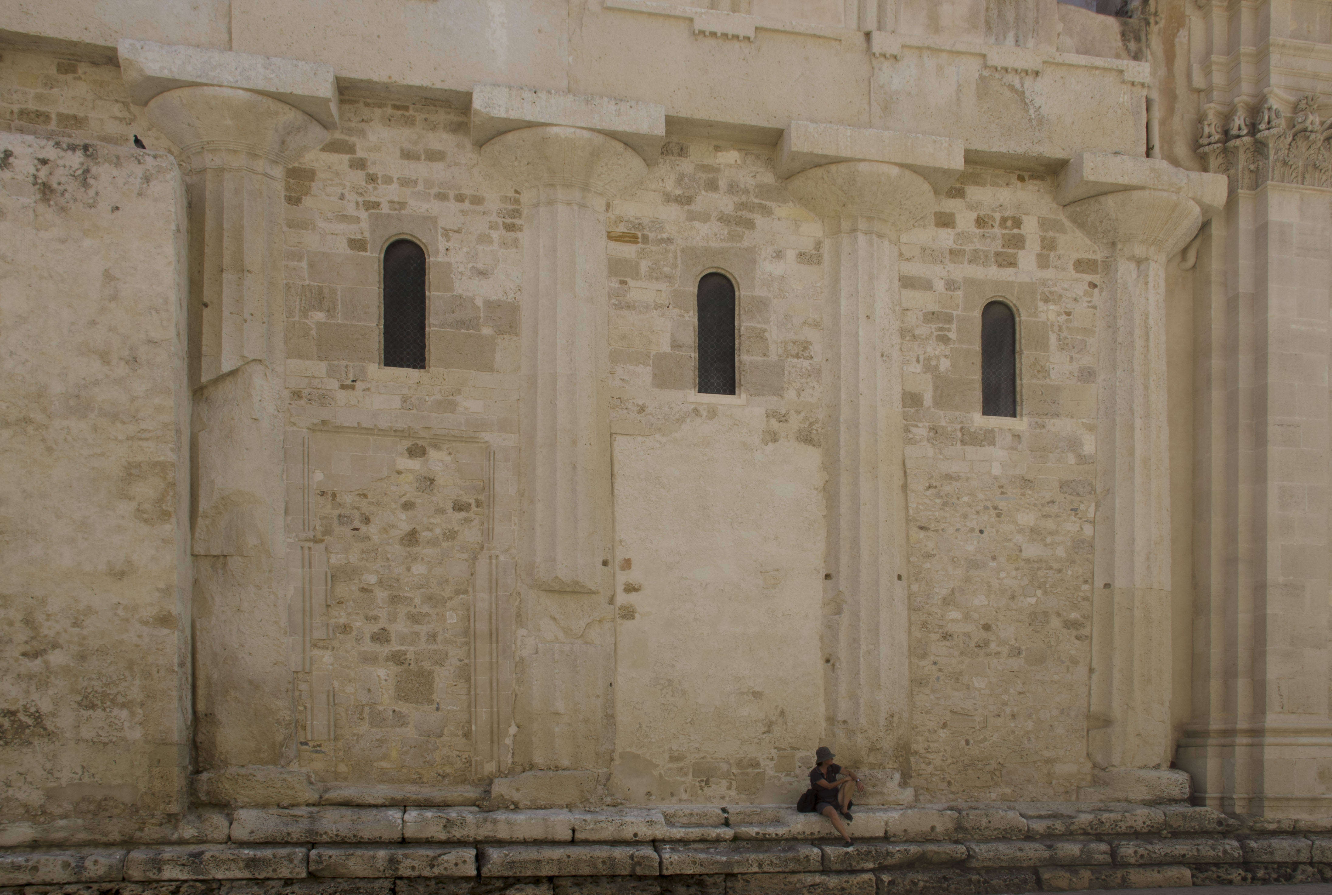 Siracusa cathedral, Sicily